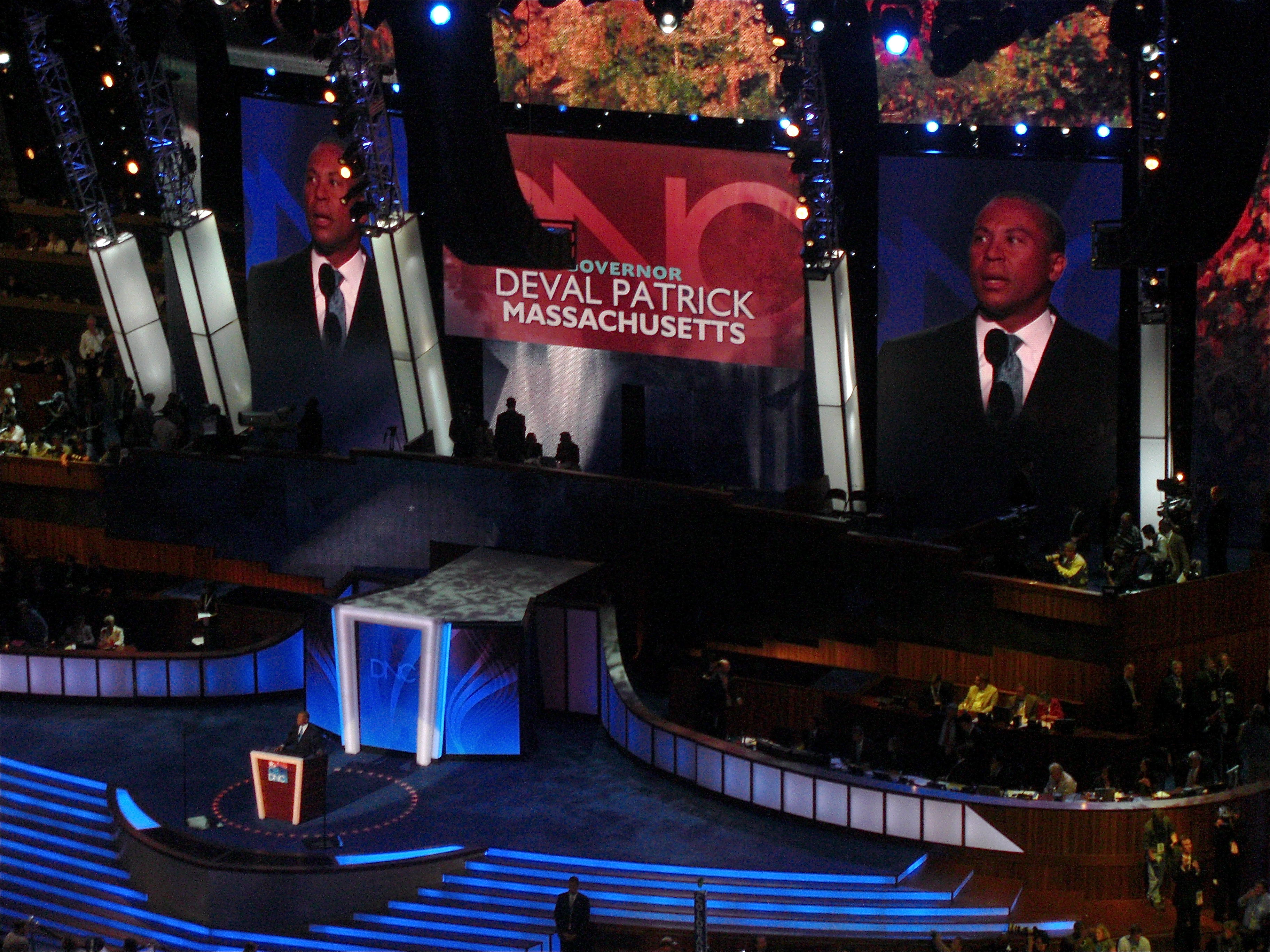 Deval Patrick speaks during the second day of the 2008 Democratic National Convention in Denver, Colorado.